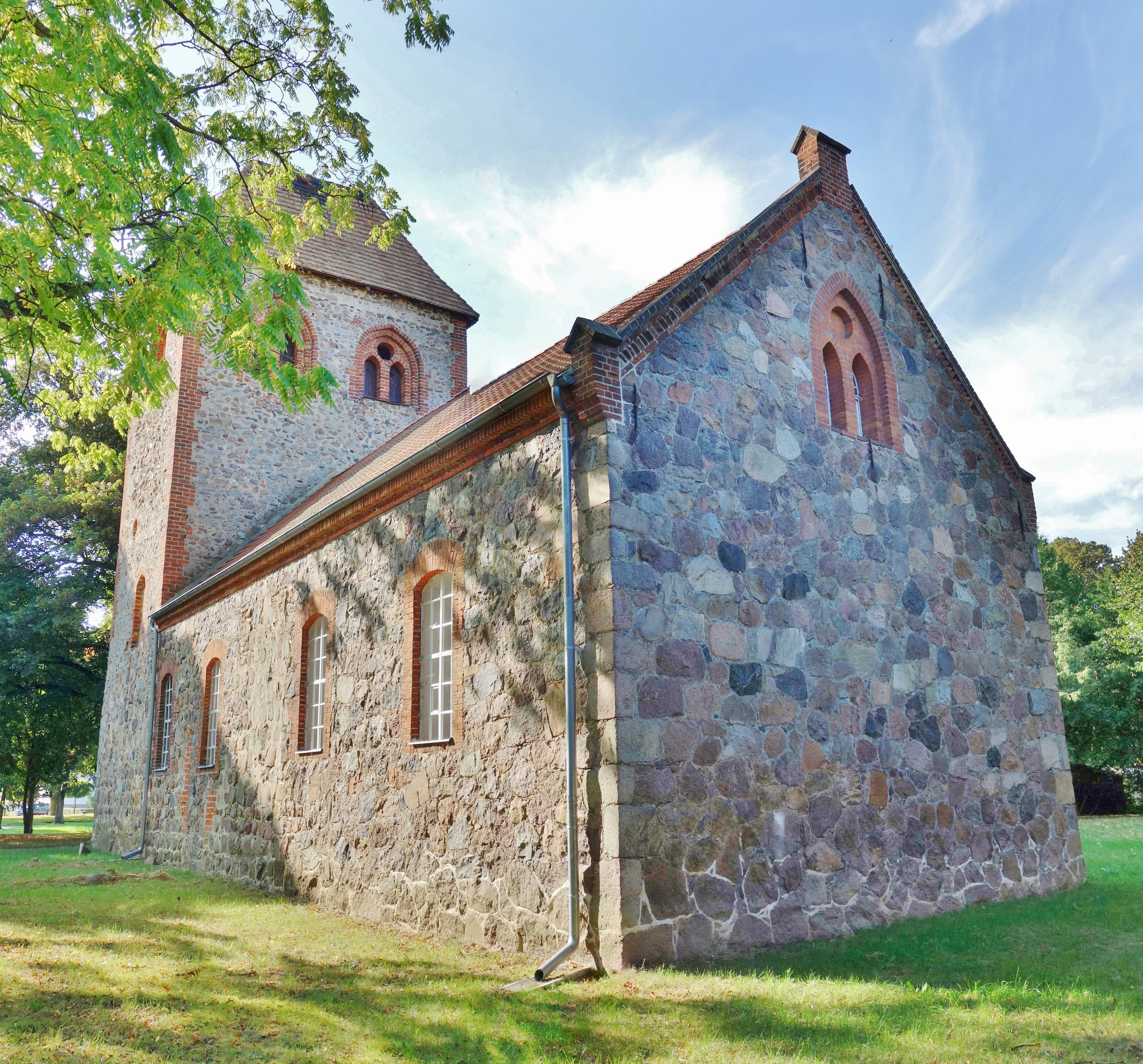 Eastern view of church in Rohlsdorf, Halenbeck-Rohlsdorf municipality, Prignitz district, Brandenburg state, Germany